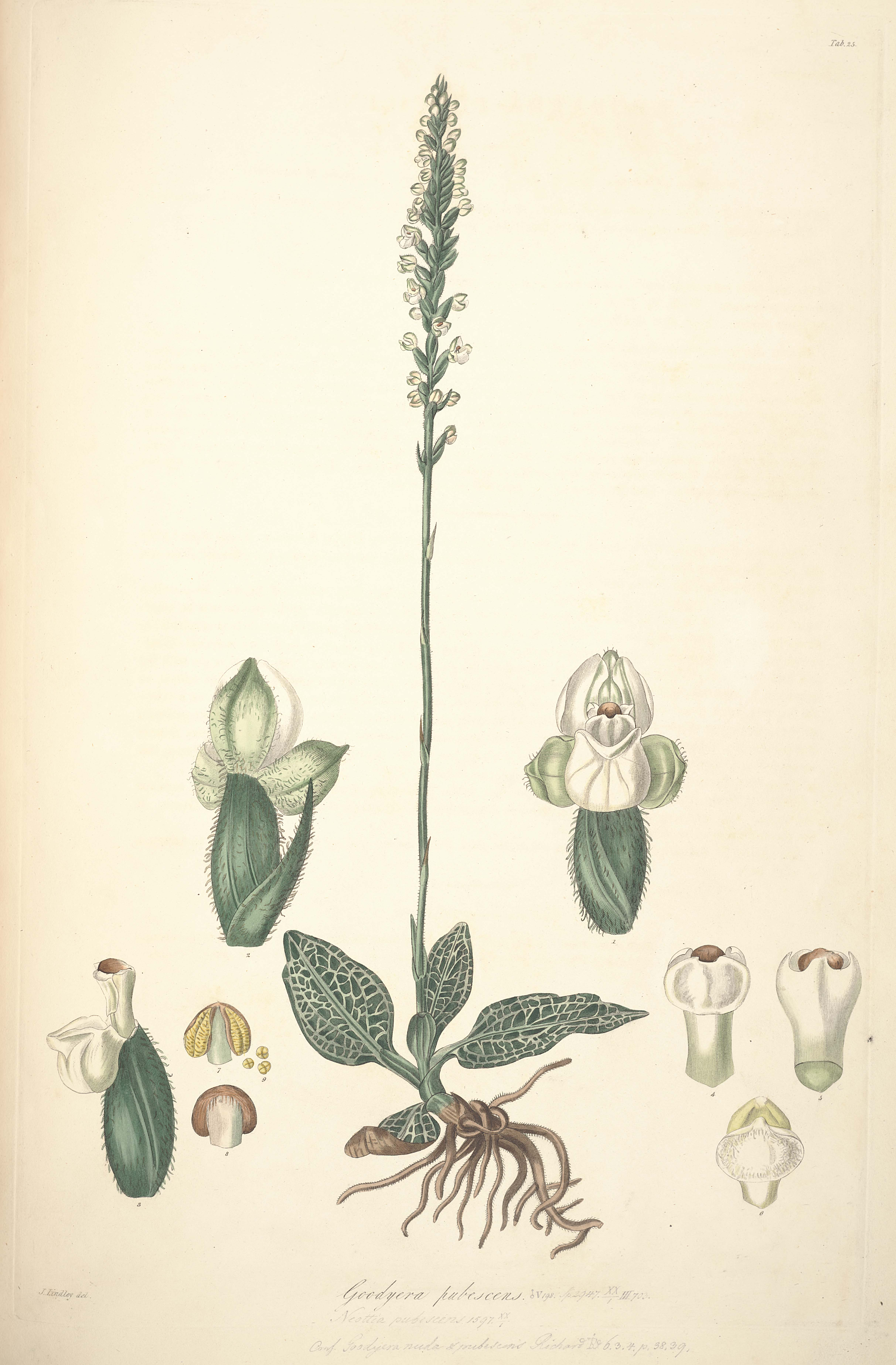 Goodyera pubescens